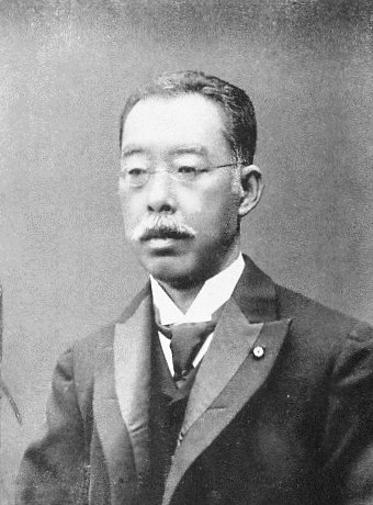 Tadanari Shimazu